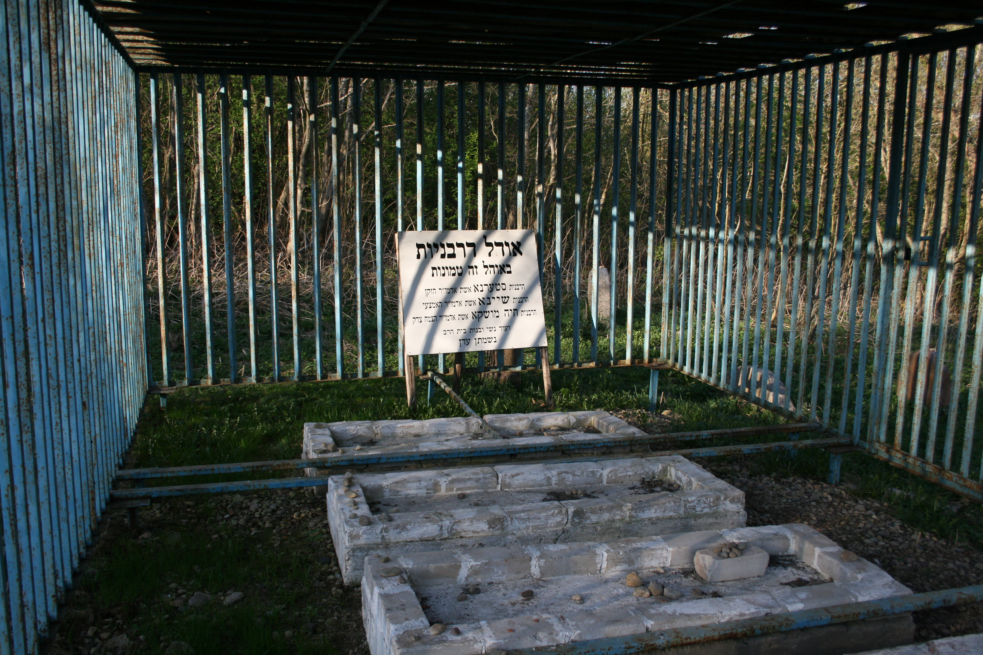 The graves of founders of Hasidic Lubavitchy branch in Lubavitchy village, Smolensk region, Russia